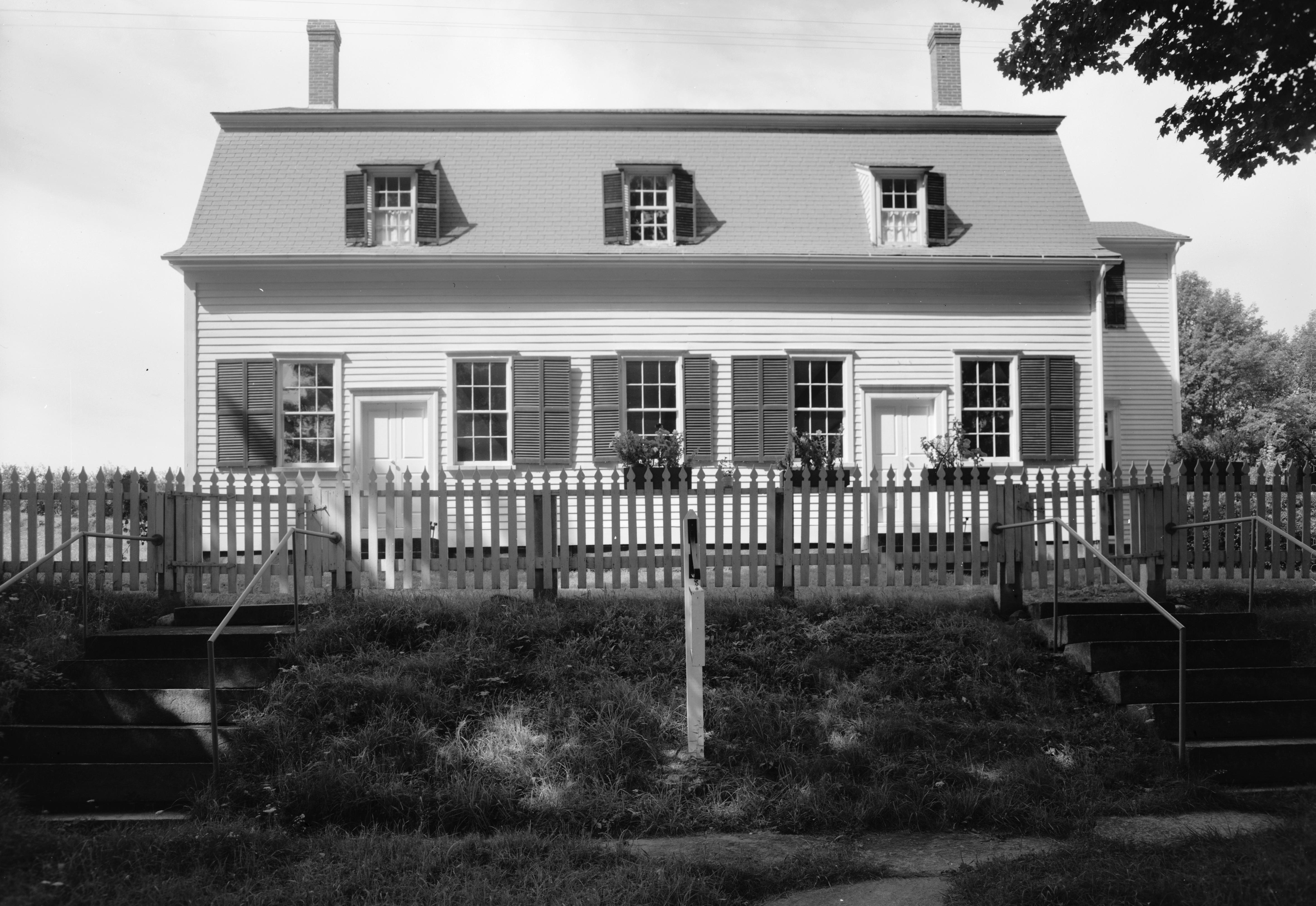 Sabbathday Lake Shaker Community Meetinghouse, West of State Route 26, South of North Raymond Road, Northwest edge of church family area, Sabbathday Lake Village (Cumberland County, Maine) (cropped)